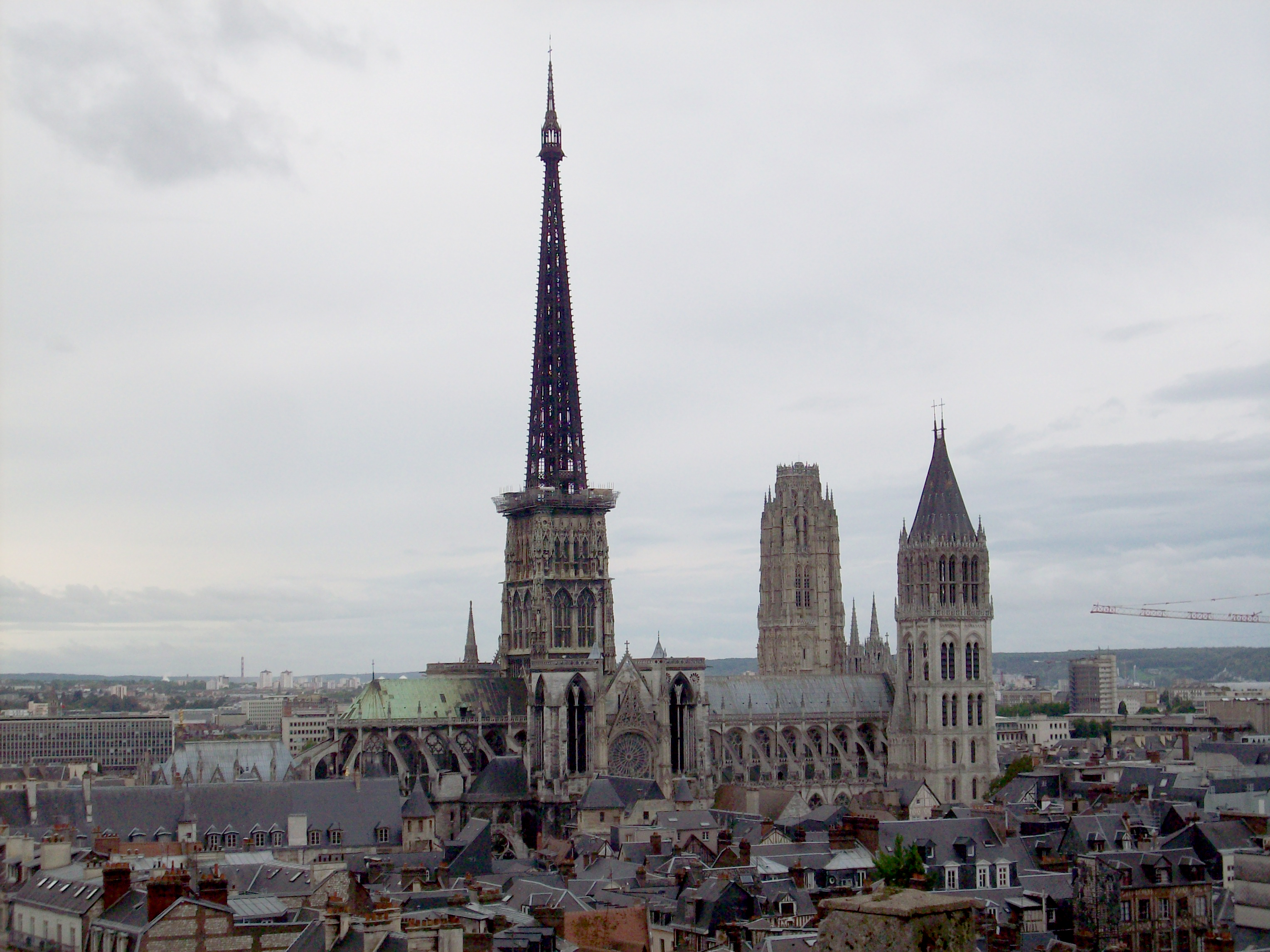 Rouen Cathedral (Gothic style), Rouen, France